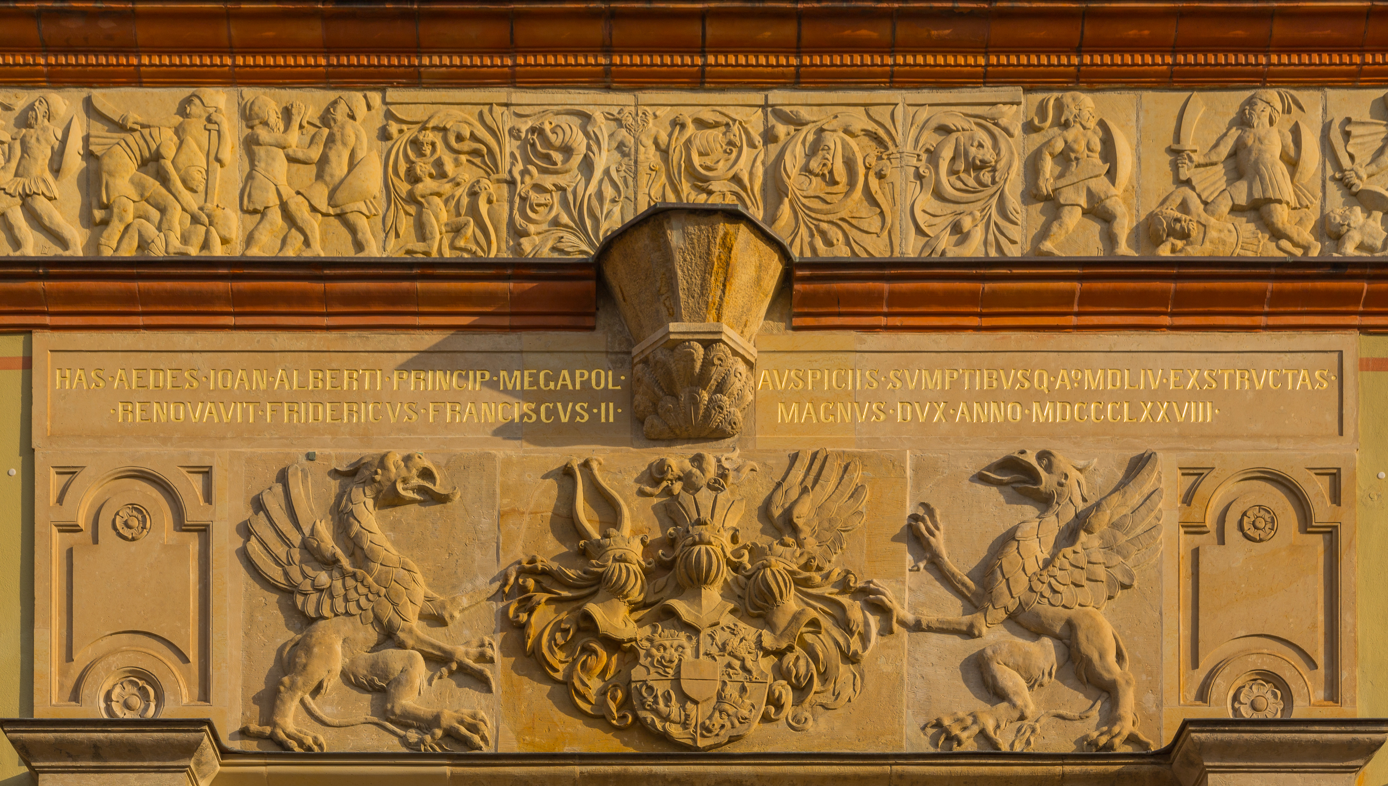 Detail of the portal of the Duke Manor (Fürstenhof) in Wismar, Landkreis Nordwestmecklenburg, Mecklenburg-Vorpommern, Germany. The building is a listed cultural heritage monument.